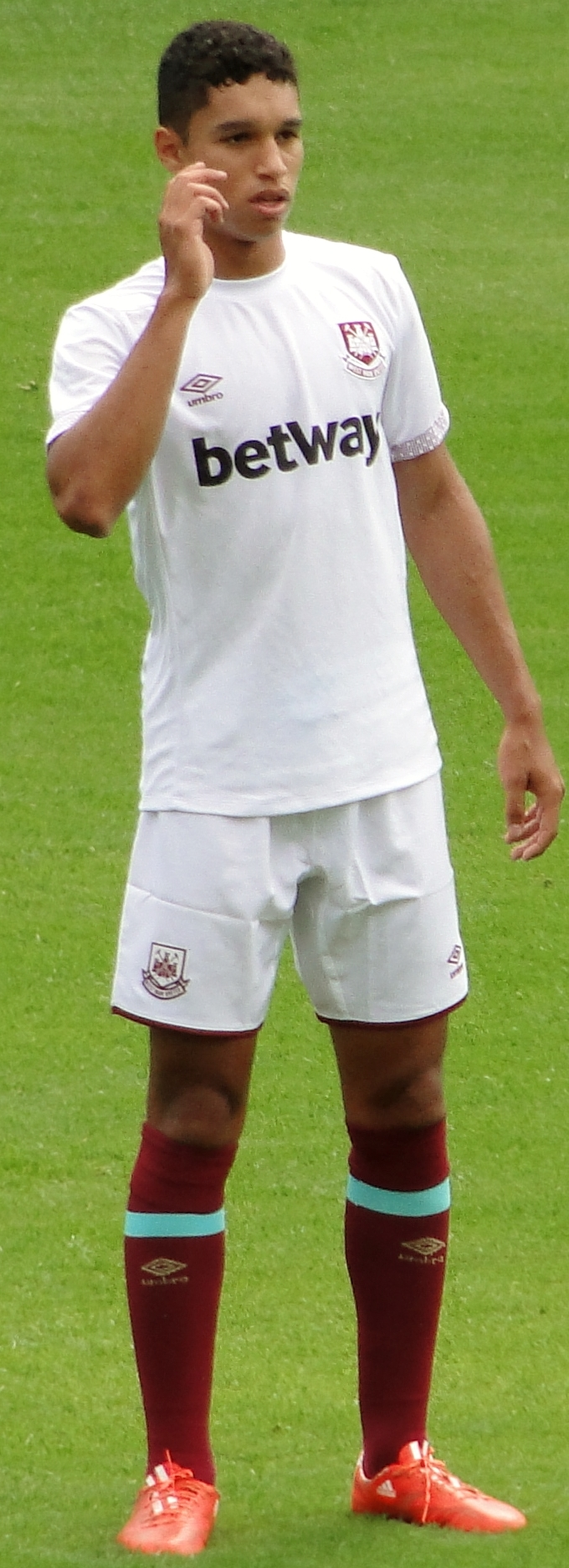 West Ham United player, Kyle Knoyle warming-up before their friendly game against Peterborough United at London Road, Peterborough.